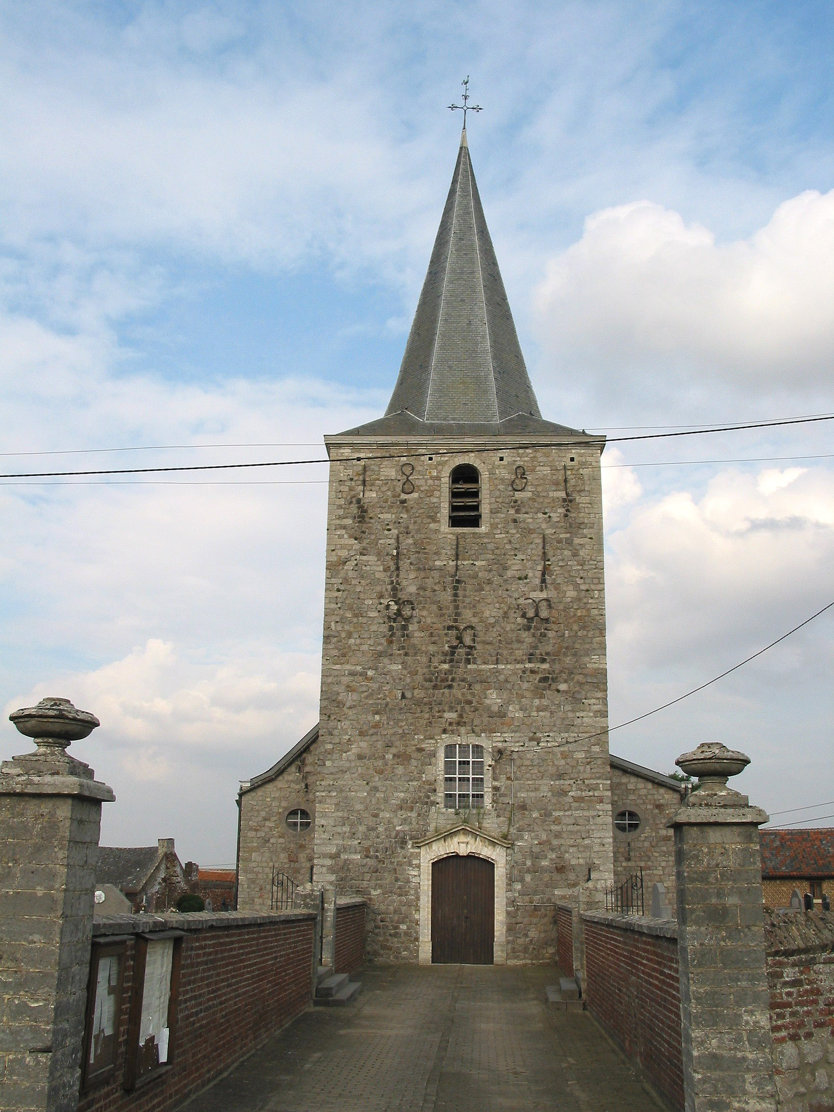 Marilles (Belgium), the St. Martin church.